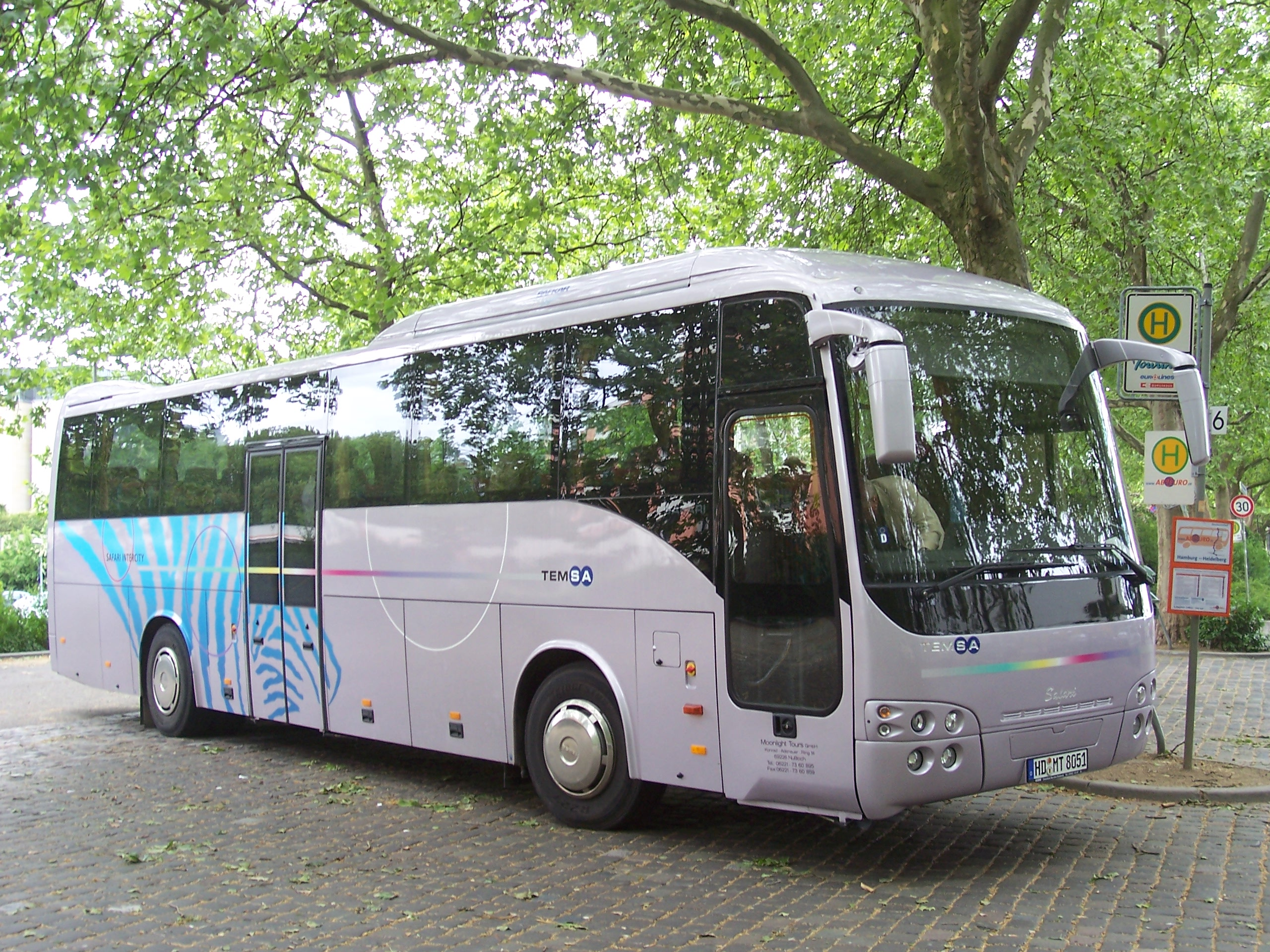 A Temsa Safari Intercity bus (HD-MT 8051) in Mannheim, Germany. Moonlight Tours GmbH operator.